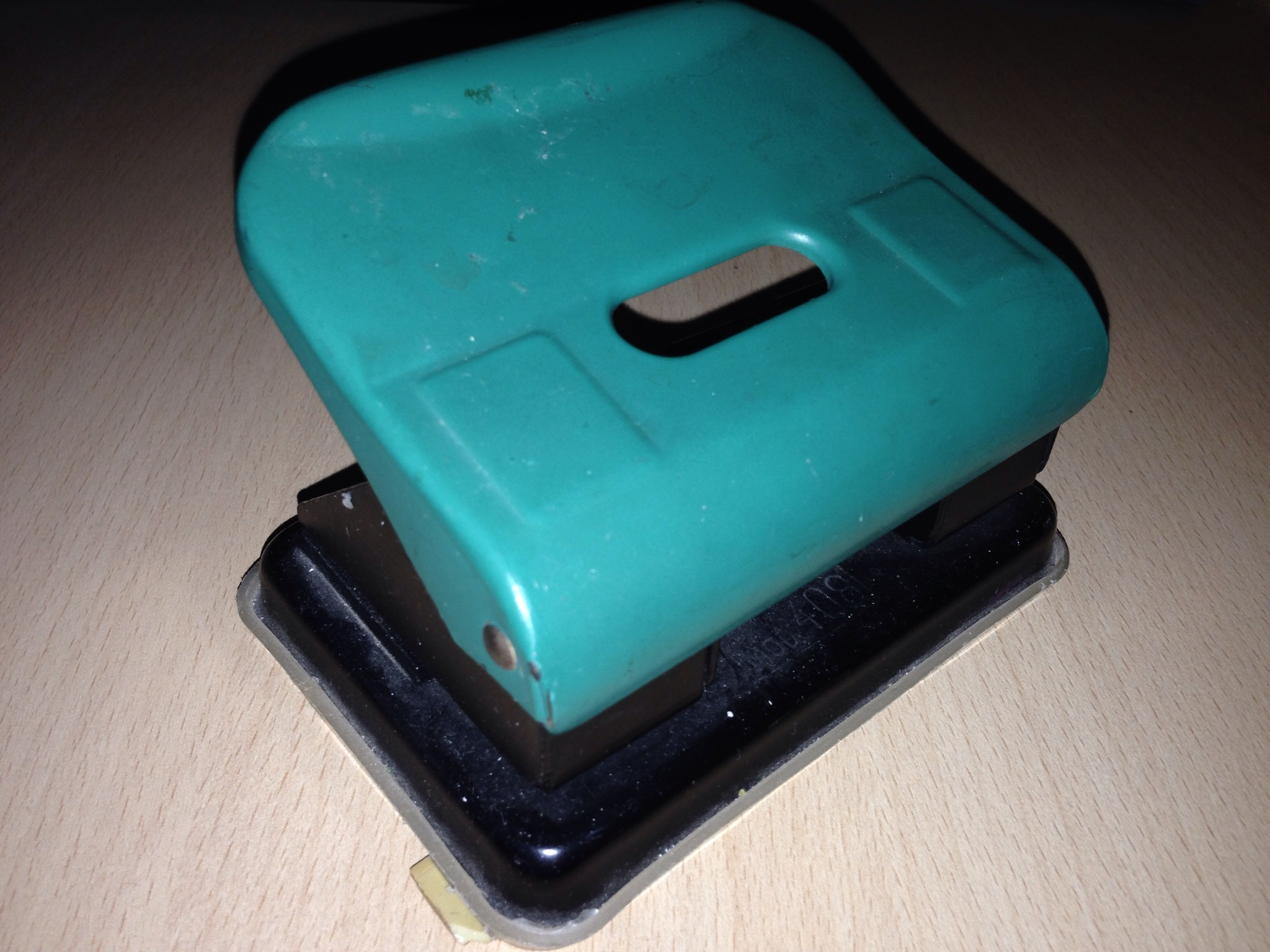 Paper perforator Srpski (latinica): Kancelarijski perforatora za papir